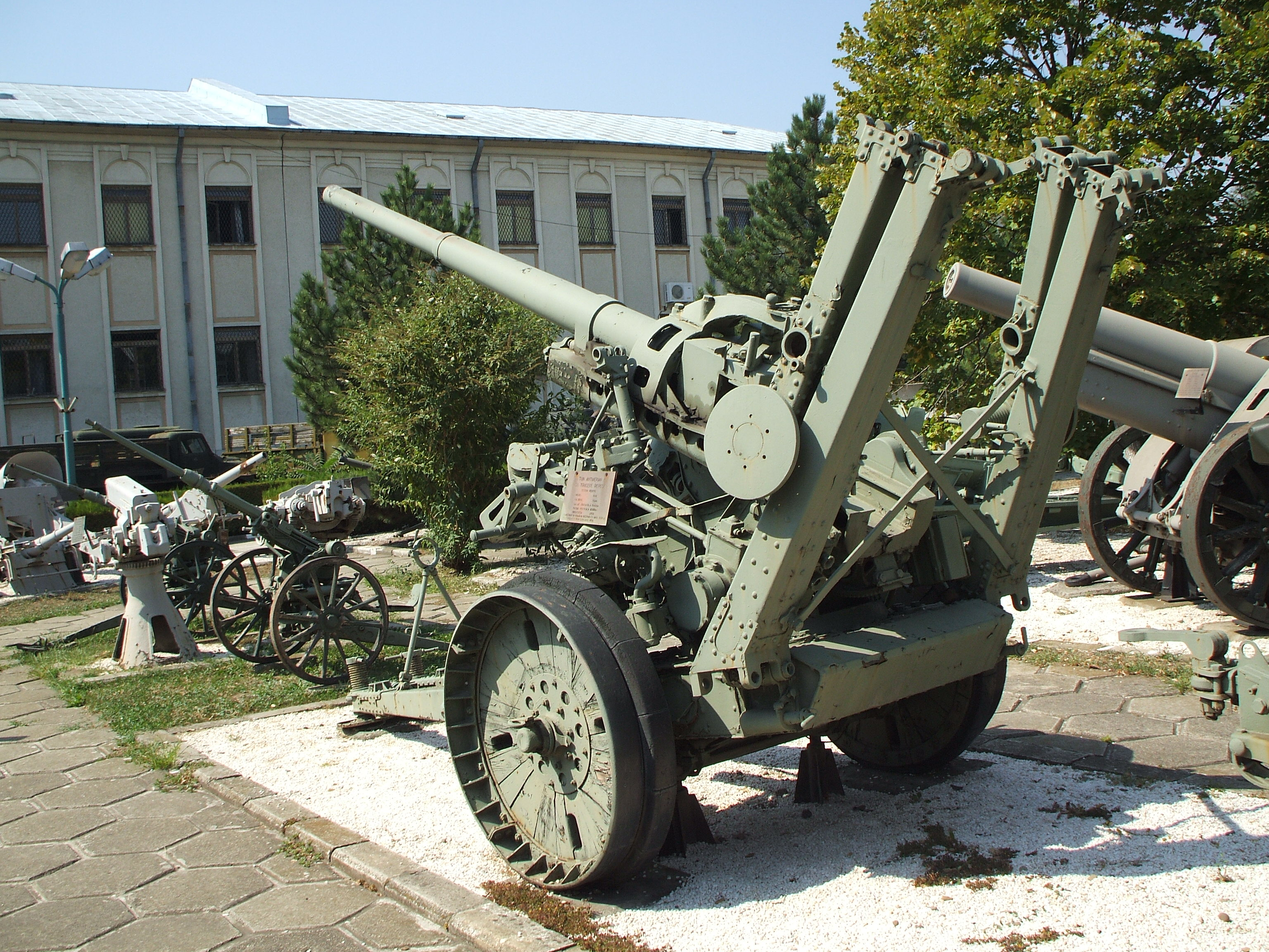 Vickers Model 1931 also known as 75mm Vickers antiaircraft gun model 1936/39.